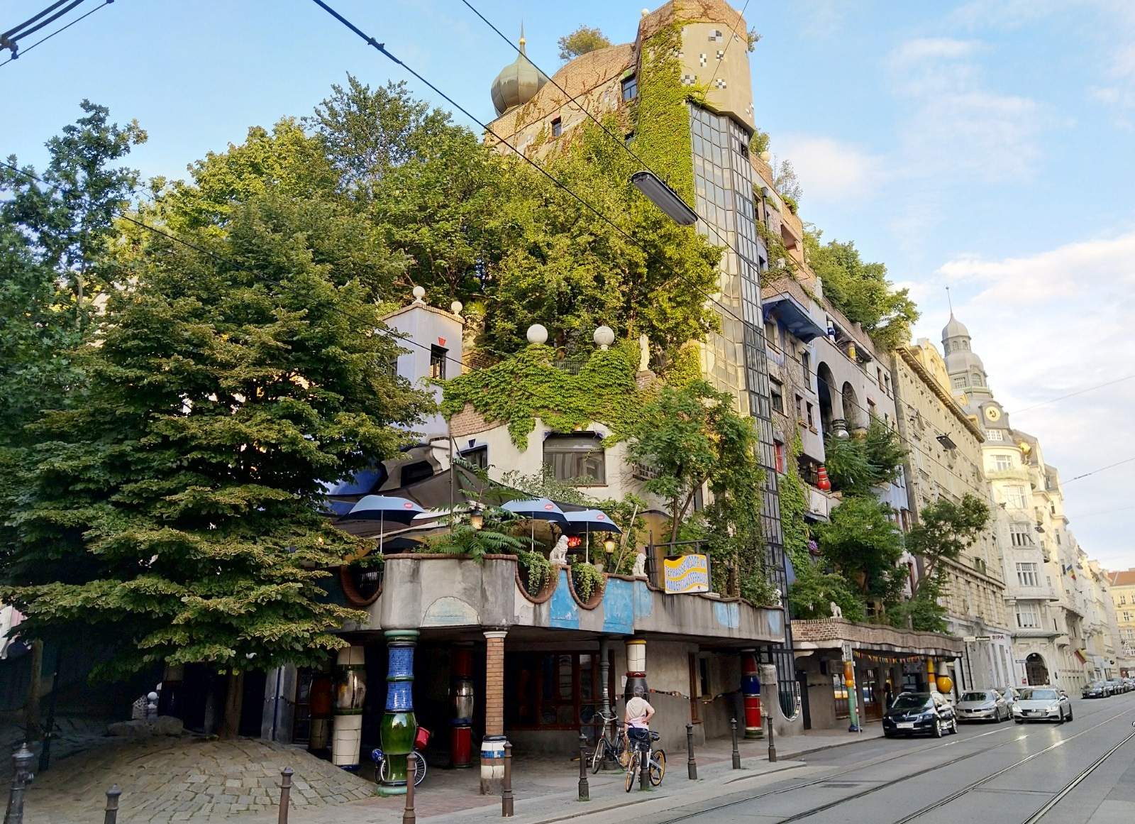 Hundertwasserhaus in Vienna